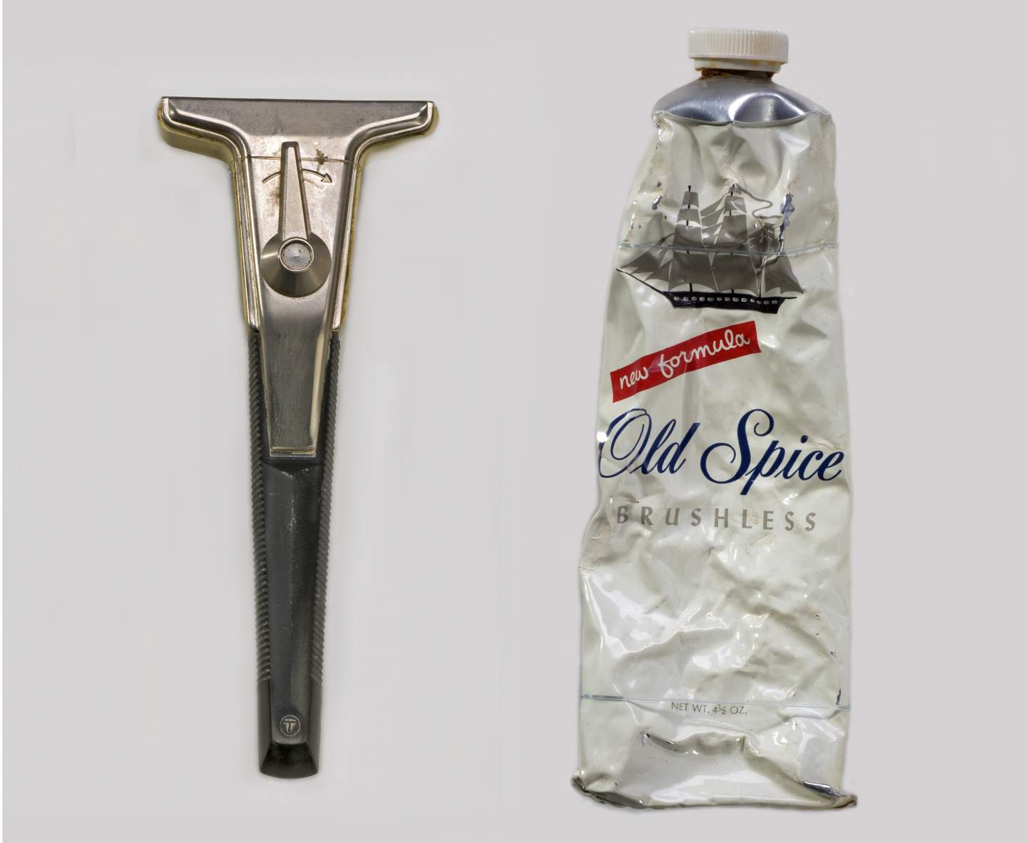 Astronaut Michael Collins' took this razor and shaving cream with him on the Apollo 11 spaceflight.